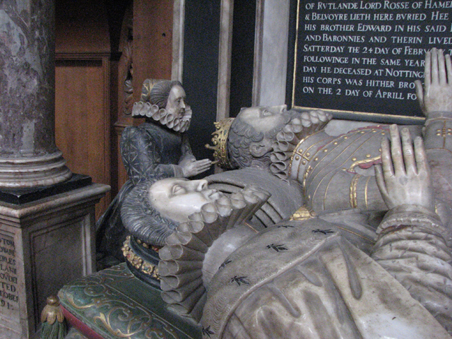 Monument to the fourth Earl of Rutland, d. 1588